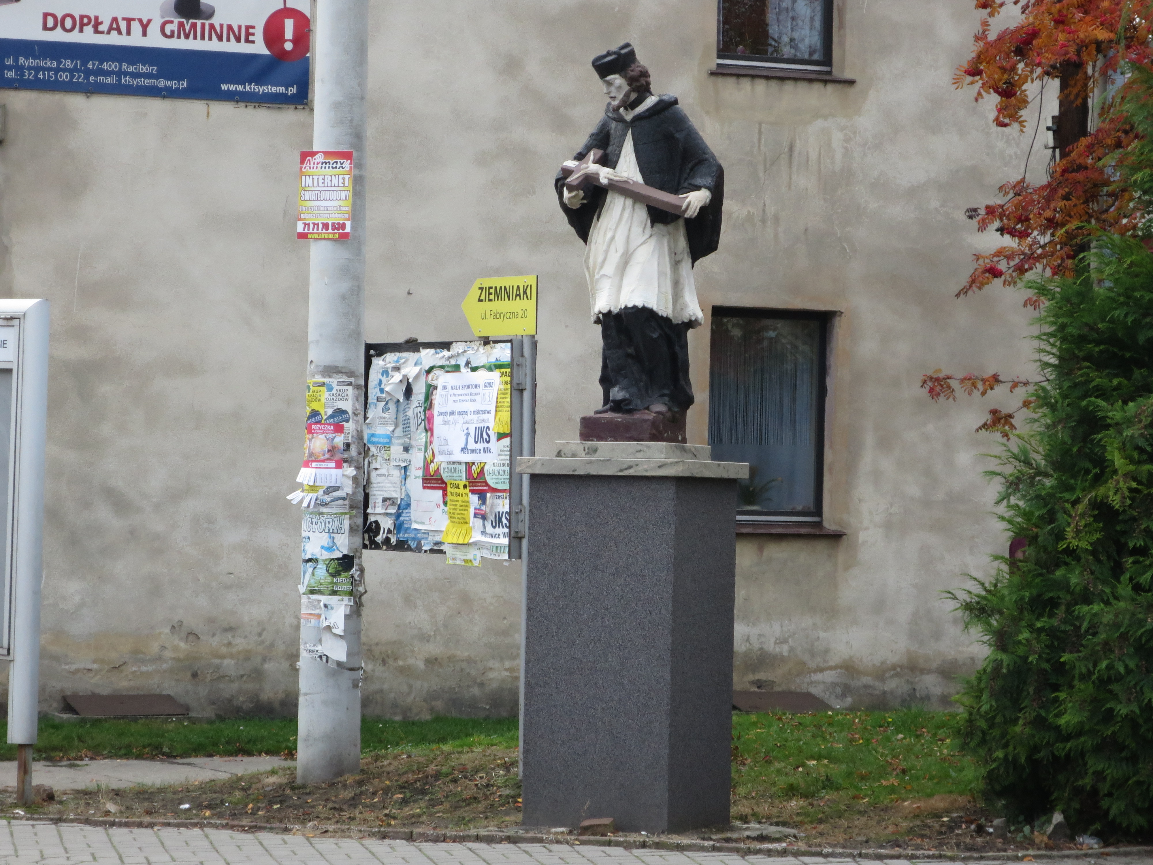 This photo was taken during Wikiexpedition 2016 set up by Wikimedia Polska Association.You can see all photographs in categories Wikiekspedycja Opolska 2016 (Polish part) and Mediagrant III:Wikiexpedice Slezsko (Czech part).